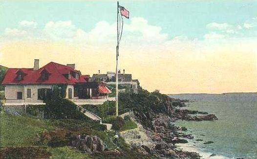 The York Harbor Reading Room & Cliff Walk, York Harbor, ME; from a c. 1920 postcard. The Reading Room was designed by Boston architect James Purdon and built in 1910.